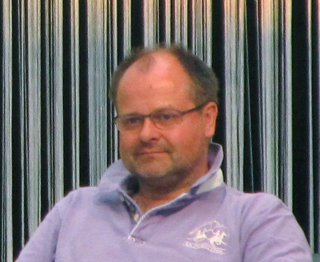 Actor Markus Majowski at the SWR Summer Festival 2013 in Mainz.